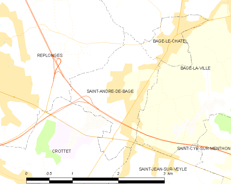 Map of French commune: Saint-André-de-Bâgé Map commune FR insee code 01332.png